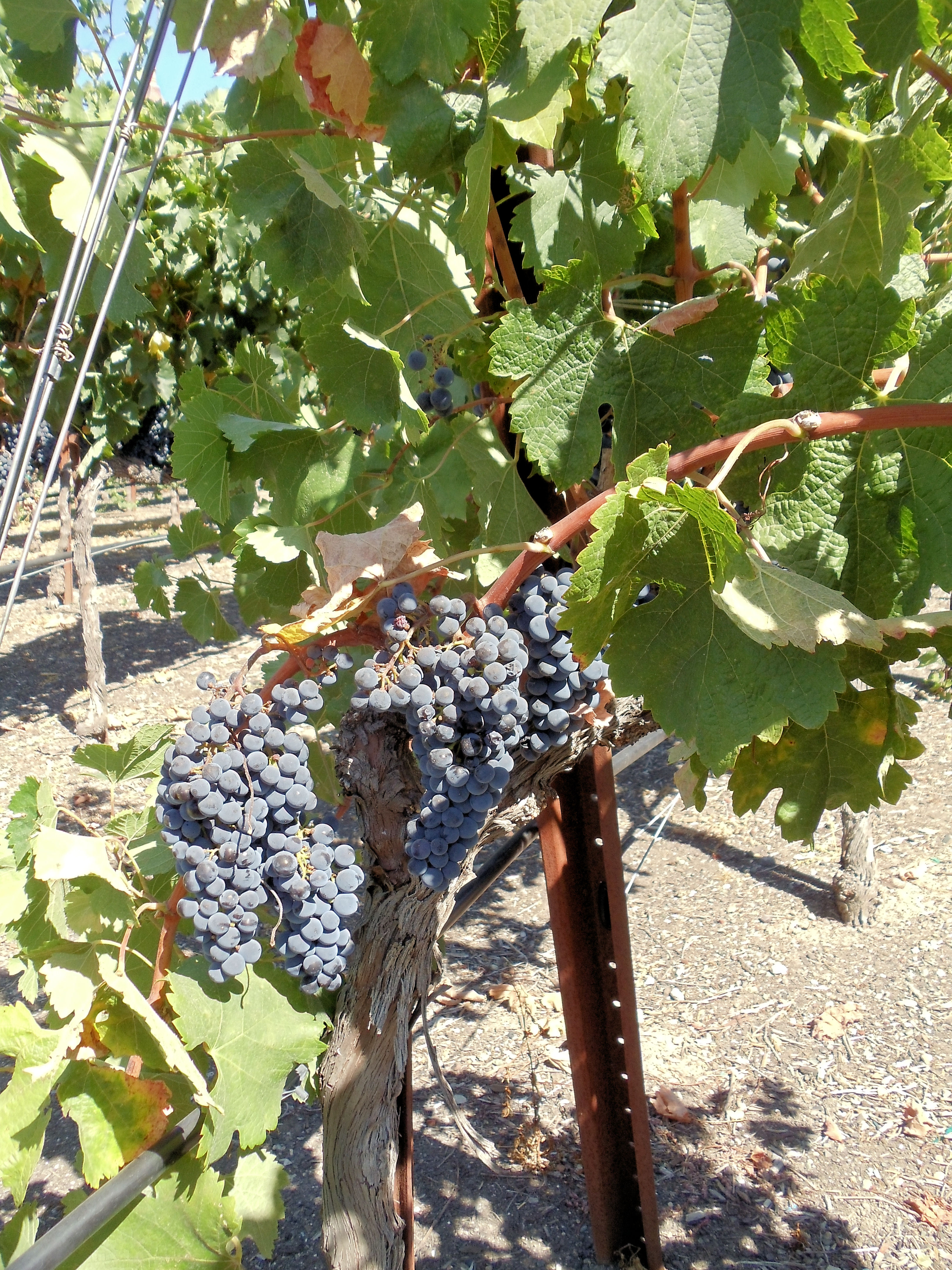 Ledson Winery and Vineyards, Santa Rosa, California, USA Ledson Winery and Vineyards : When the Ledson family started construction in 1989, they thought the property would be ideal for their residence. They planted 17 acres of Merlot and began work on the house. As the months passed, the turrets, slate roofs, balconies and fountains took shape and passers-by started to take notice, some going so far as to climb the fences to get a better look. The family eventually realized that it was time to rethink the plan. Given the intense public interest in the building and the quality of the Merlot harvested from the estate vineyard - which had been sold to nearby wineries - they decided to turn the home into a winery and tasting room. In 1997 the family released their first wine, the 1994 Ledson Estate Merlot and in 1999 after two years of reconstruction, the winery opened its doors to the public. An instant landmark, Ledson Winery, known as “The Castle” around the globe, is an architectural showpiece. The 16,000 square foot French Normandy structure was designed entirely by Steve Ledson and features sweeping staircases, marble fireplaces, cathedral-style windows, coffered ceilings, several tasting bars, luxuriously appointed bridal suites and over five miles of ornate wood inlays and mosaics, which were hand cut and installed by Steve's son, Mike. The Castle provides a stunning setting for wine tasting weekends, romantic getaways and executive retreats.